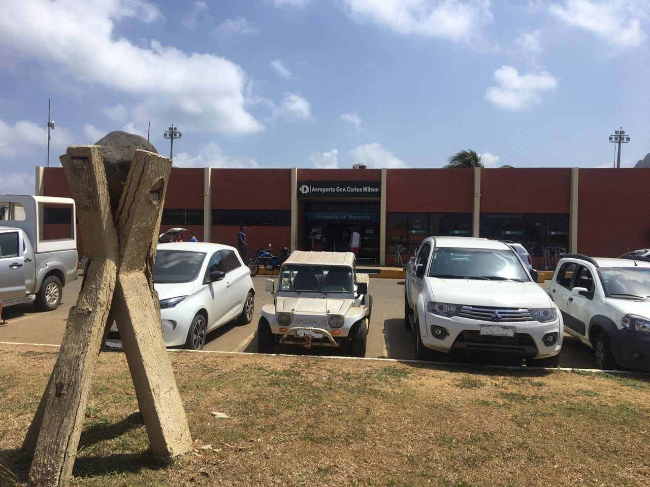 Airport FEN-SBFN front